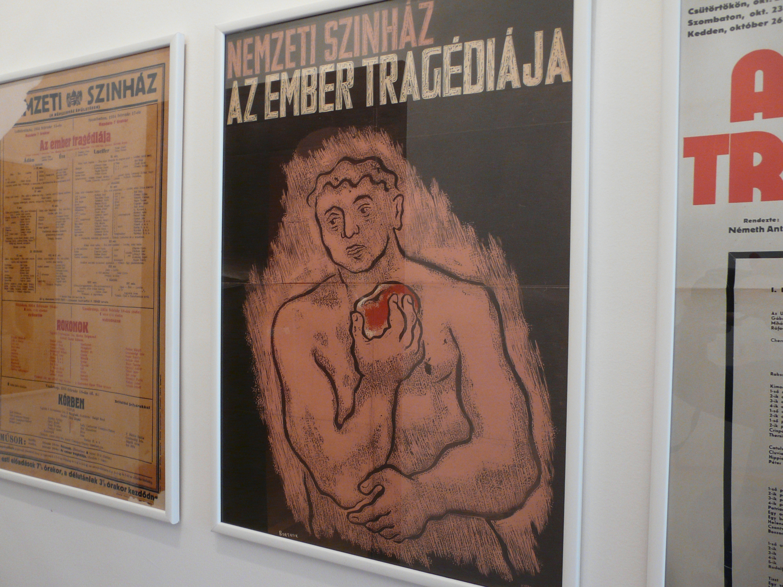 Poster of The Tragedy of Man. Imre Madách Memorial Museum in Csesztve, Bortnyik Sándor's work